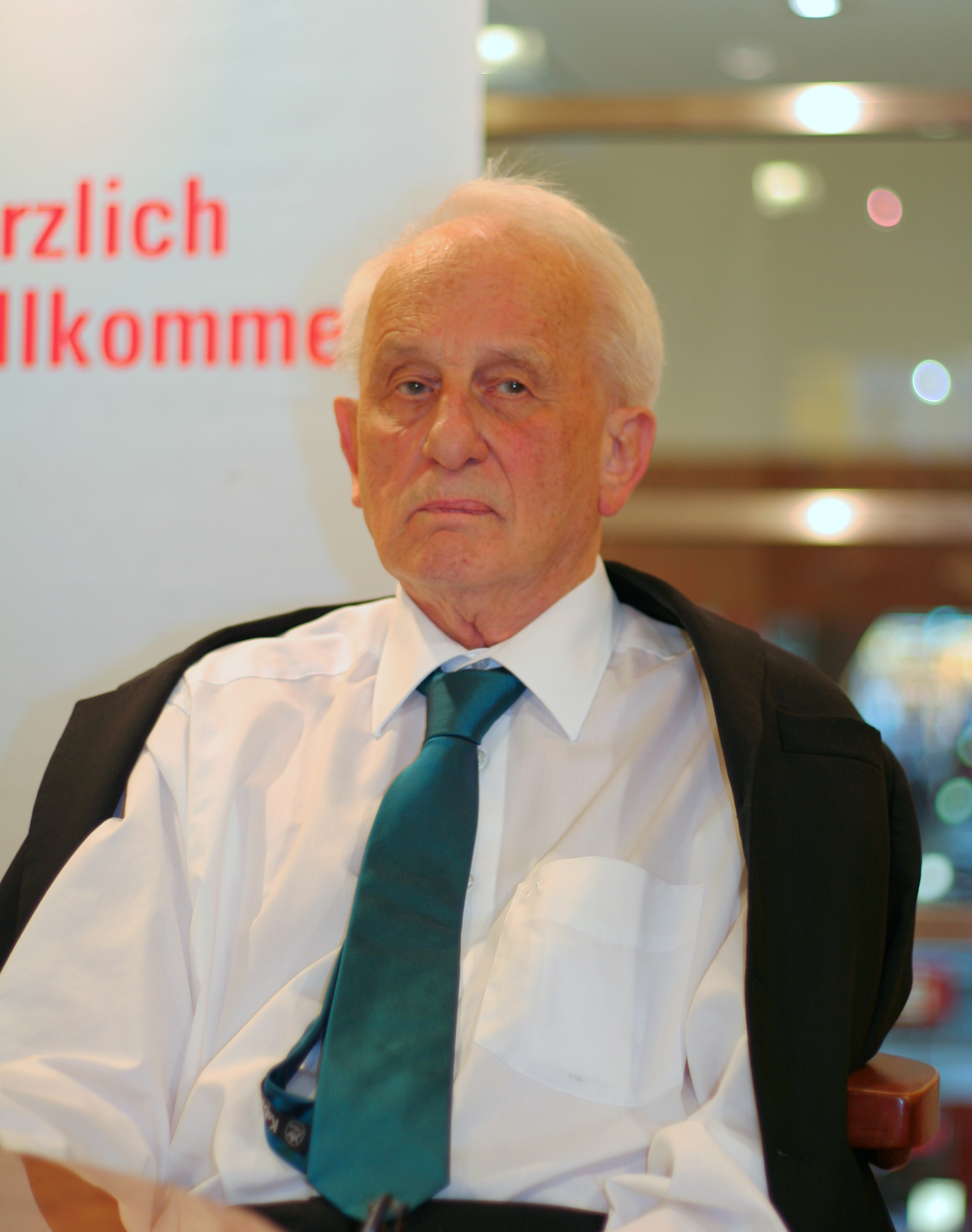 The German playwright Rolf Hochhuth authographs his books in Cologne. Taken in September 2009.